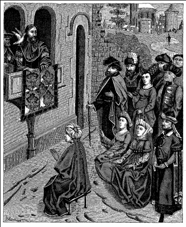 Expulsion of the Jews in the Reign of the Emperor Hadrian (a.D. 135)